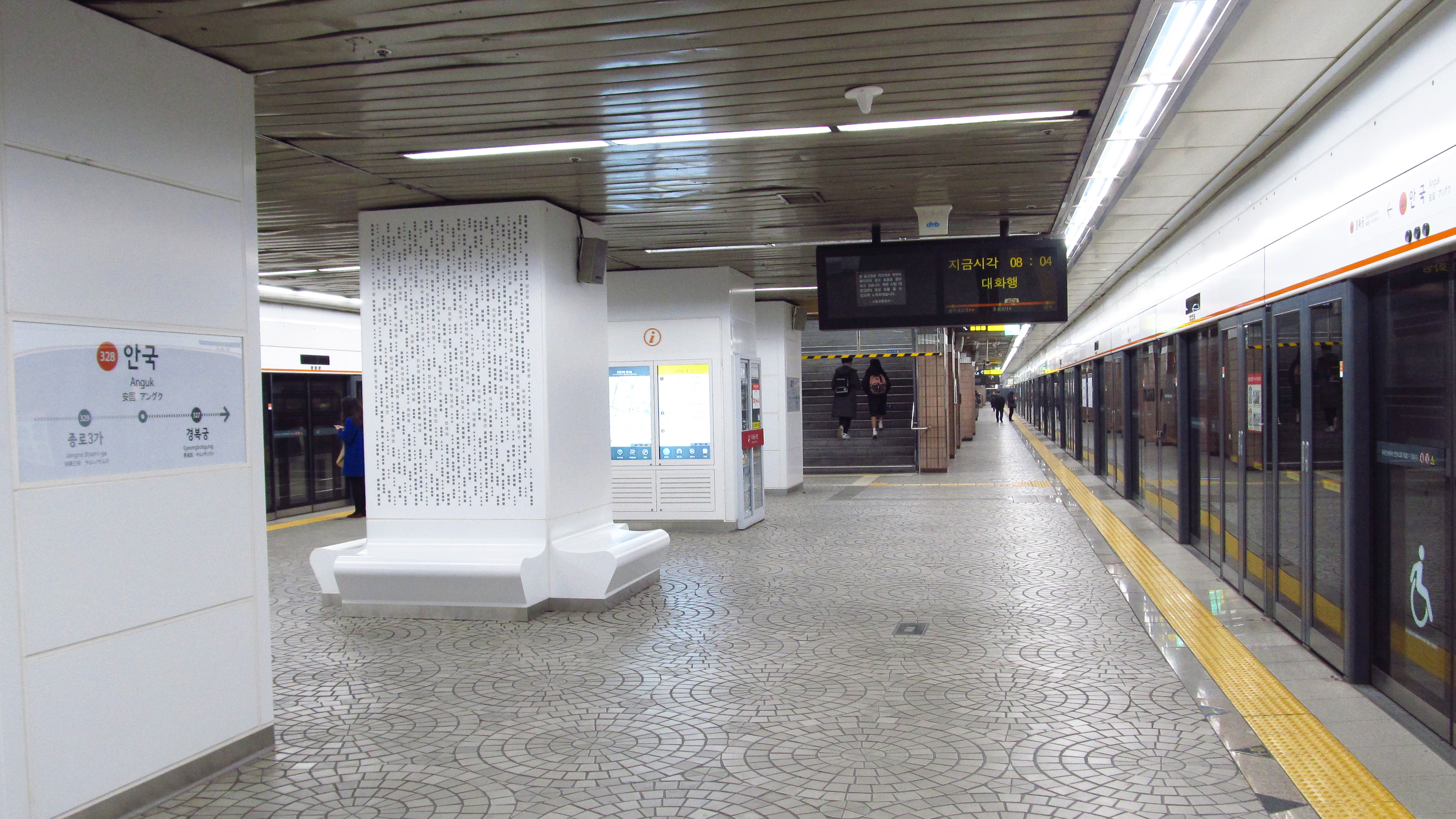 The platform at Anguk Station on Seoul Subway Line 3 in Jongno-gu, Seoul, Republic of Korea(South Korea)